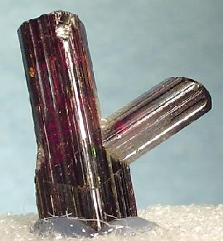 Rutile Locality: Binn Valley, Wallis (Valais), Switzerland (Locality at ) Size: 2.0 x 1.6 x 0.8 cm. A superb, classic and sculptural Swiss thumbnail of highly lustrous, partially gemmy, thick, deep wine-red rutile crystals from the famous Binn Valley. Ex. Dick Jones Collection.